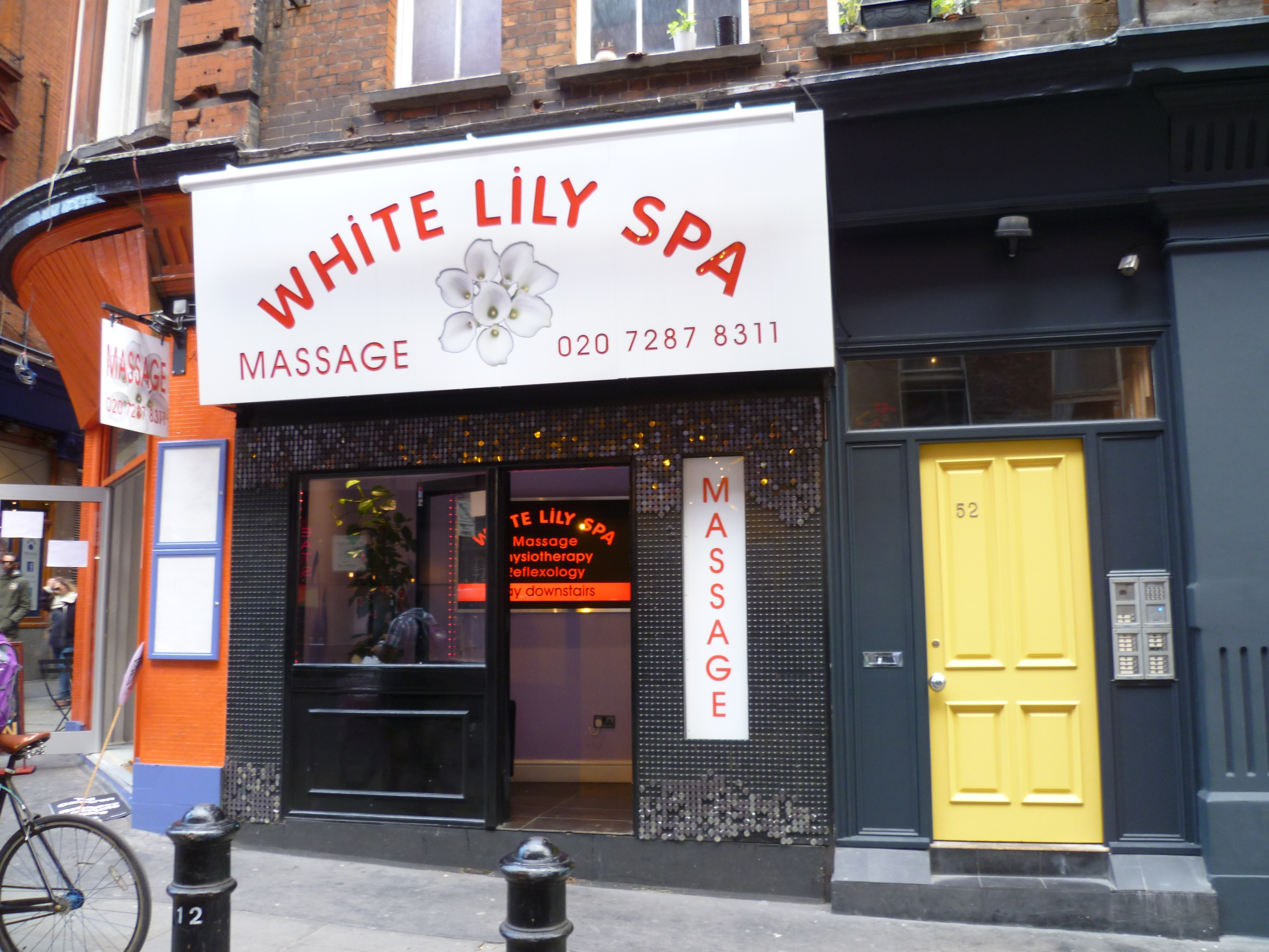 White Lily Spa, Tisbury Court, Soho